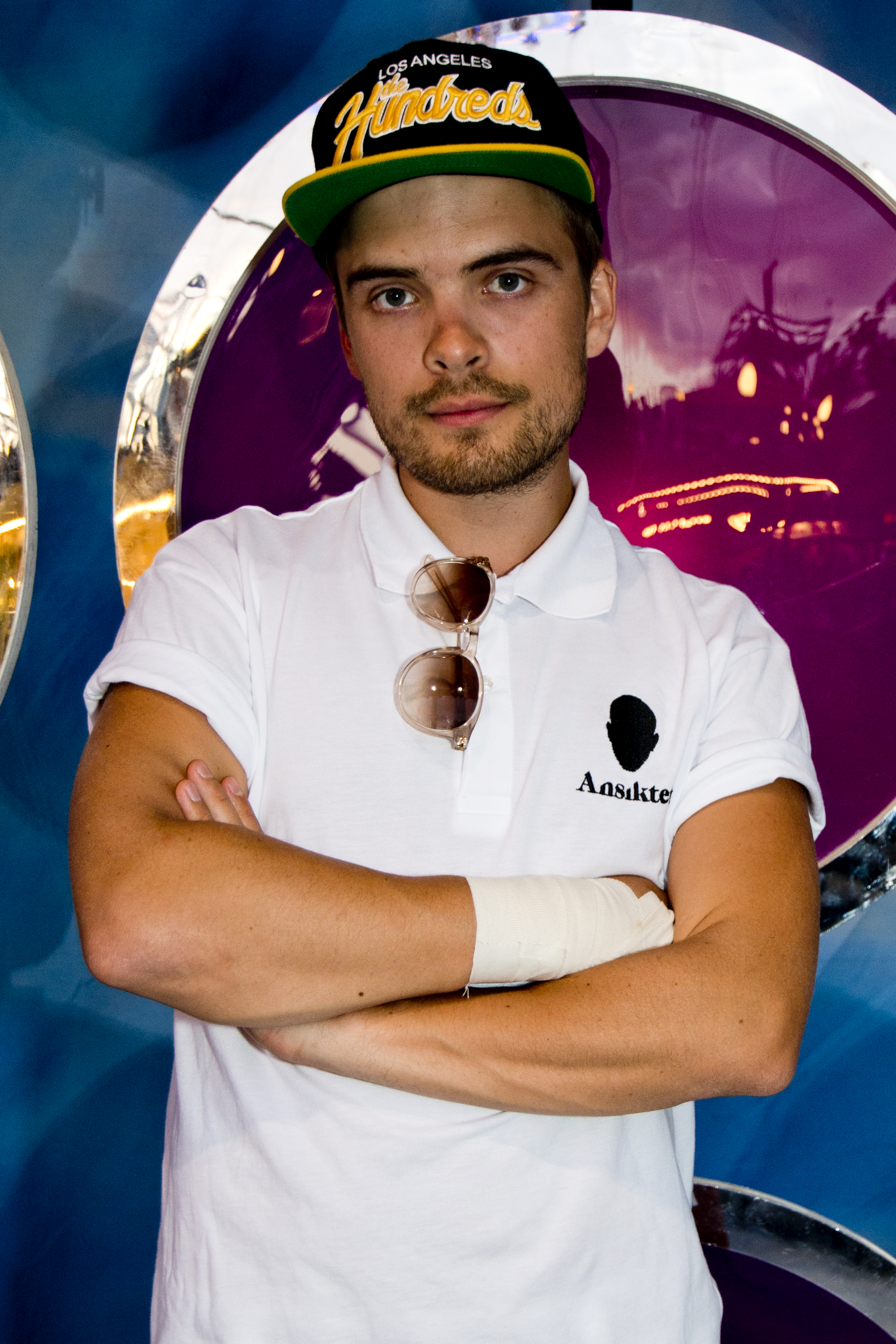 Erik Nordström from Ansiktets (The name of the group, in english The Face) performens in Sommarkrysset 2013 at Gröna Lund, Stockholm (Sweden)